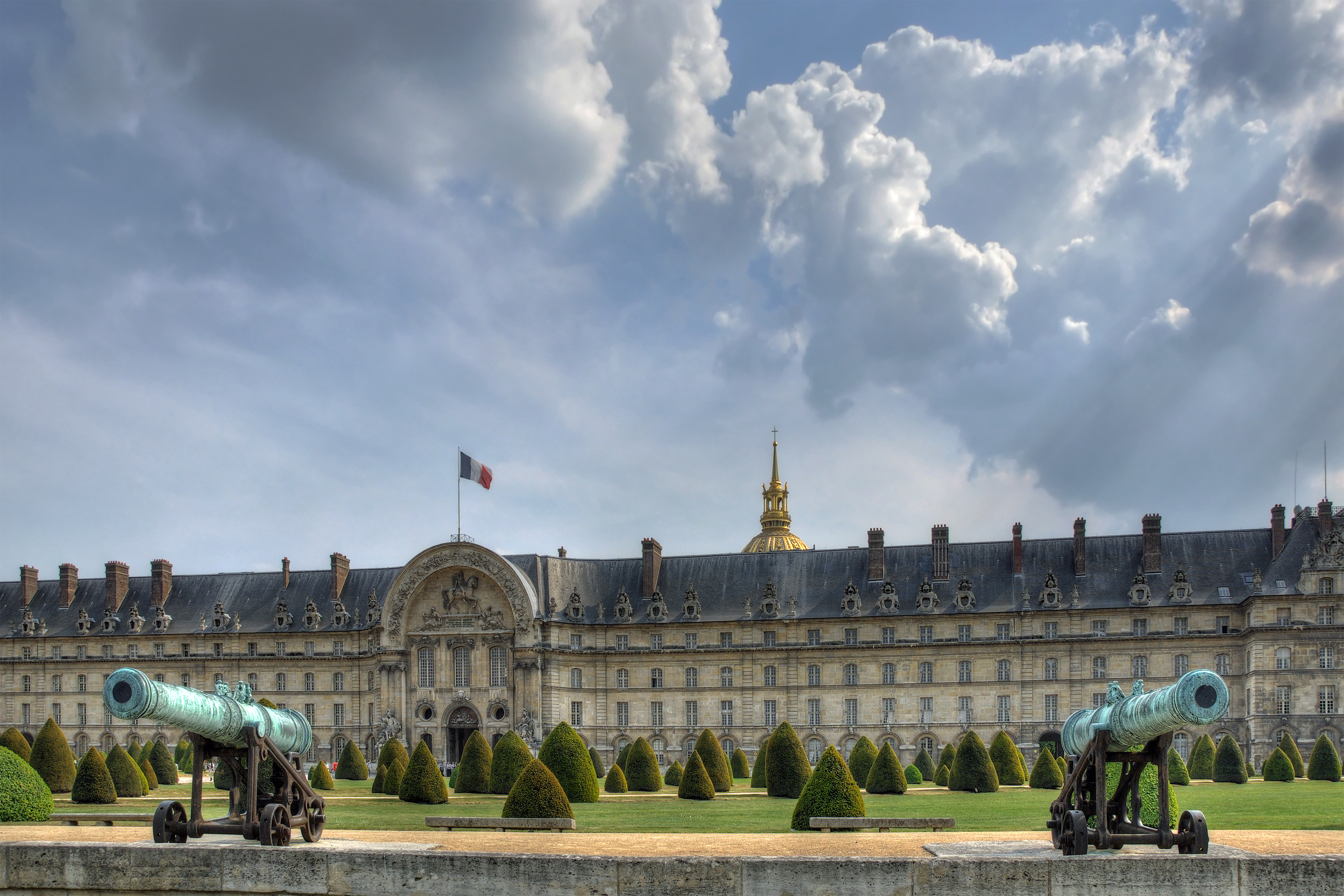 Hôtel des Invalides - Paris, France